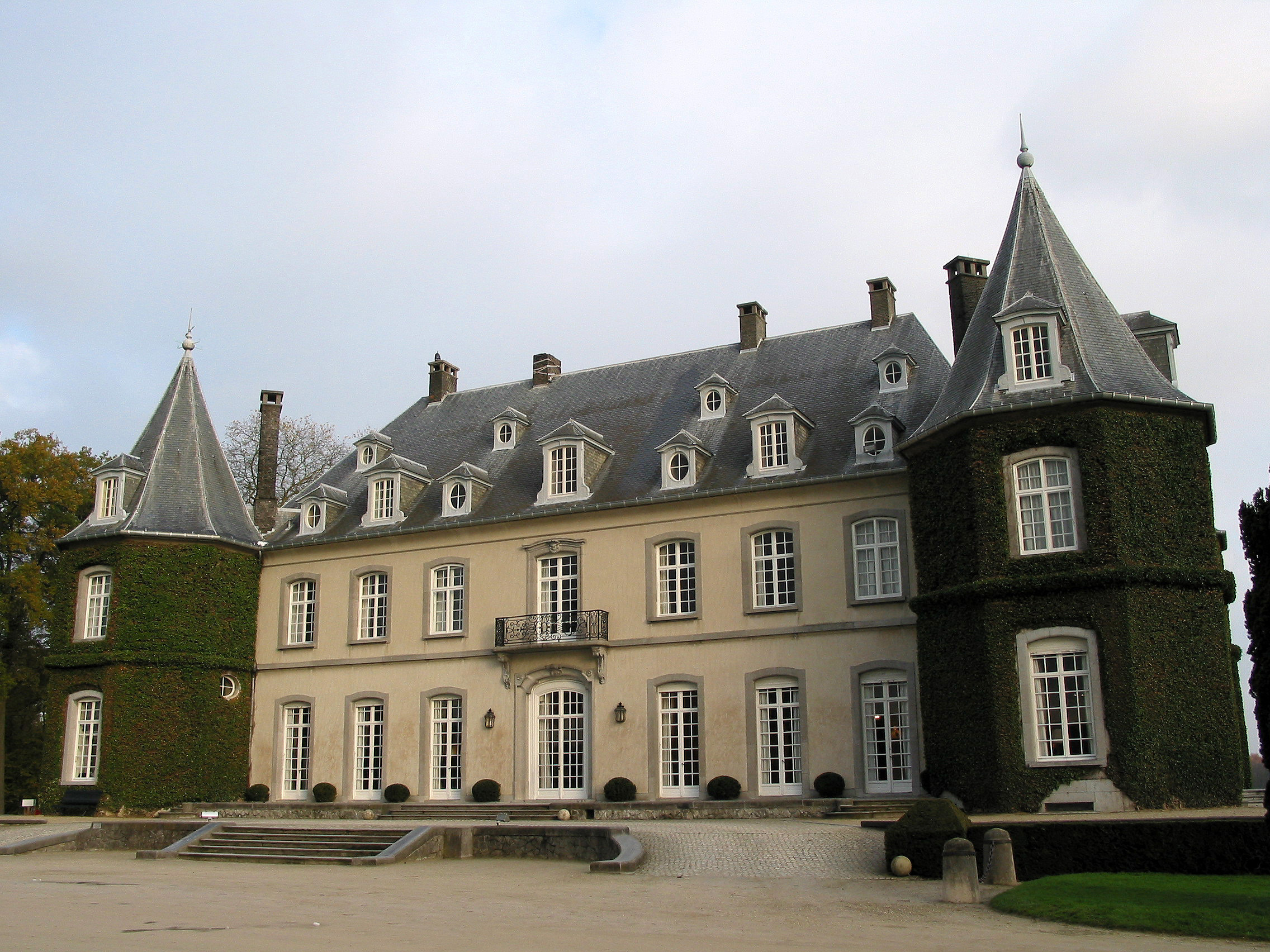 La Hulpe (Belgium), the Solvay castle (1842).